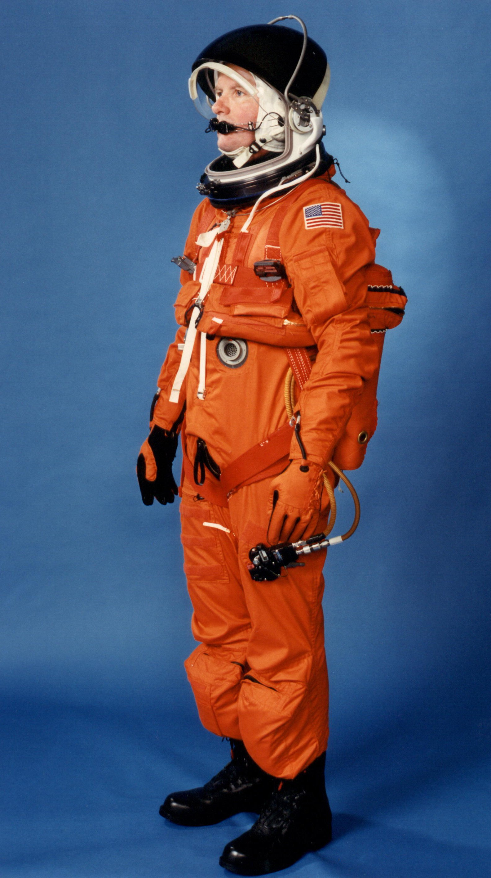 "Space shuttle orange launch and entry suit (LES), a partial pressure suit, is modeled by a technician. LES was designed for STS-26, the return to flight mission, and subsequent missions. Included in the crew escape system (CES) package are launch and entry helmet (LEH) with communications carrier (COMM CAP), parachute pack and harness, life raft, life preserver unit (LPU), LES gloves, suit oxygen manifold and valves, boots, and survival gear."